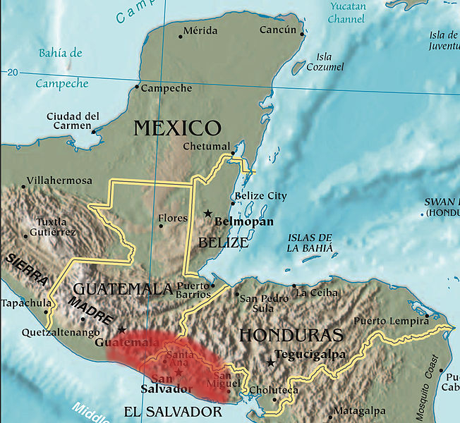 Area of demographic collapse following the Ilopango eruption. based on file: Central american mountains.jpg and Figure 10.7 page 251 from "Eruptions that Shook the World" by Clive Oppenheimer, Cambridge University Press, 2011